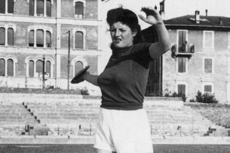 Italian Olympic medallist Edera Cordiale